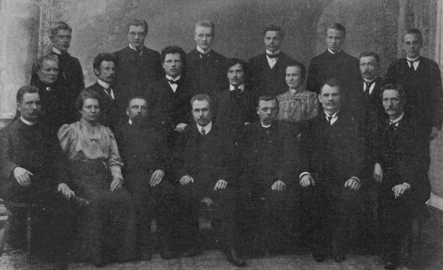 Social Democratic Party of Finland party agitators in Tampere 1906. Back from left: A. Markkanen, K. Lehtinen, Jalmari Kirjarinta, A. Riipinen, Tuomas Hyrskymurto, K. H. Jokinen. Middle: Aura Kiiskinen, Oskari Jalava, F. Malinen, E. Malmberg, Sandra Reinholdson, J. A. Helenius. Front: Vilho Lehokas, Ida Aalle, Anders Käcklund, Yrjö Sirola, J. F. Kivikoski, Heikki Aronen, Werner Aro.